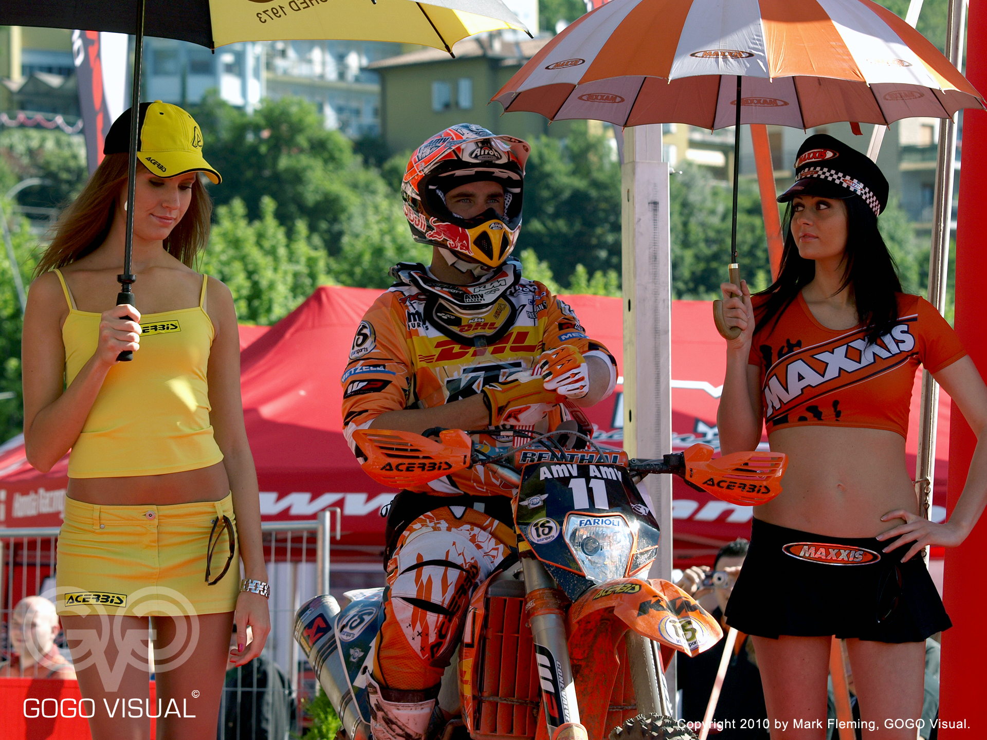 E1 - Johnny Aubert (France, KTM) at the 2010 MAXXIS FIM Enduro World Championship GP of Italy, in Lovere (41st Valli Bergamasche)